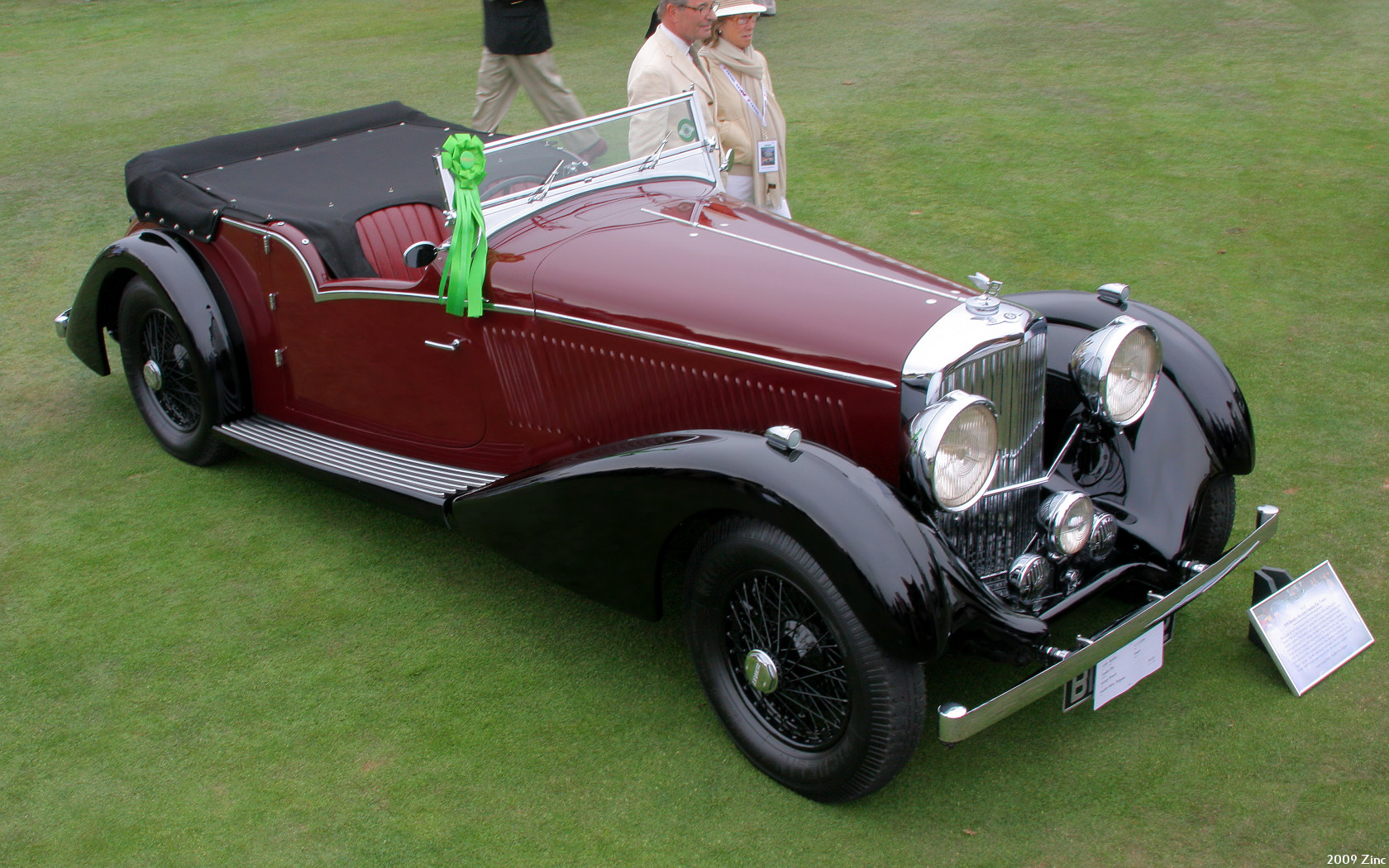 Pebble Beach Concours dElegance, Aug 16, 2009